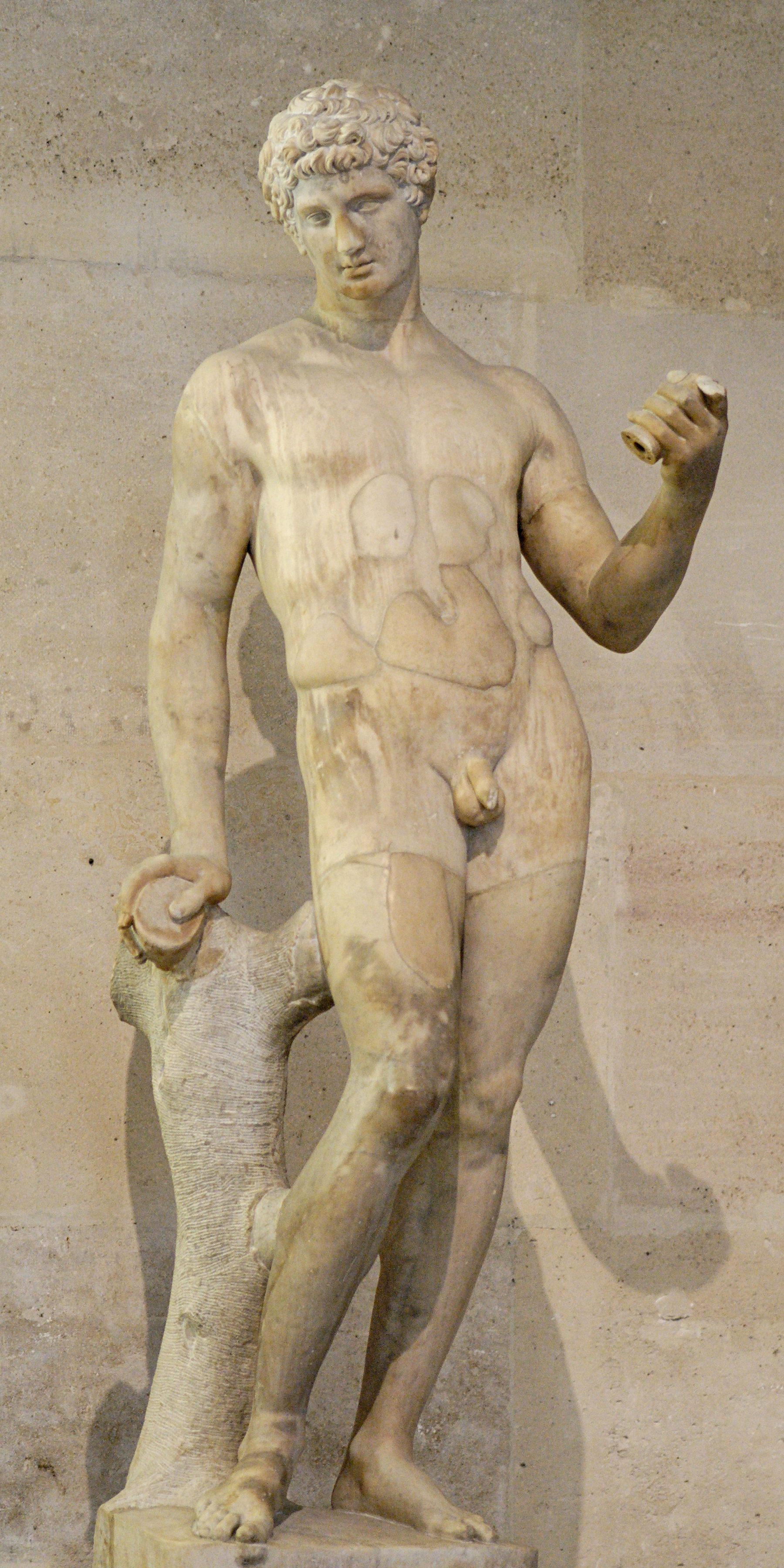 Adonis. Marble, antique torso restored and completed by Duquesnoy.